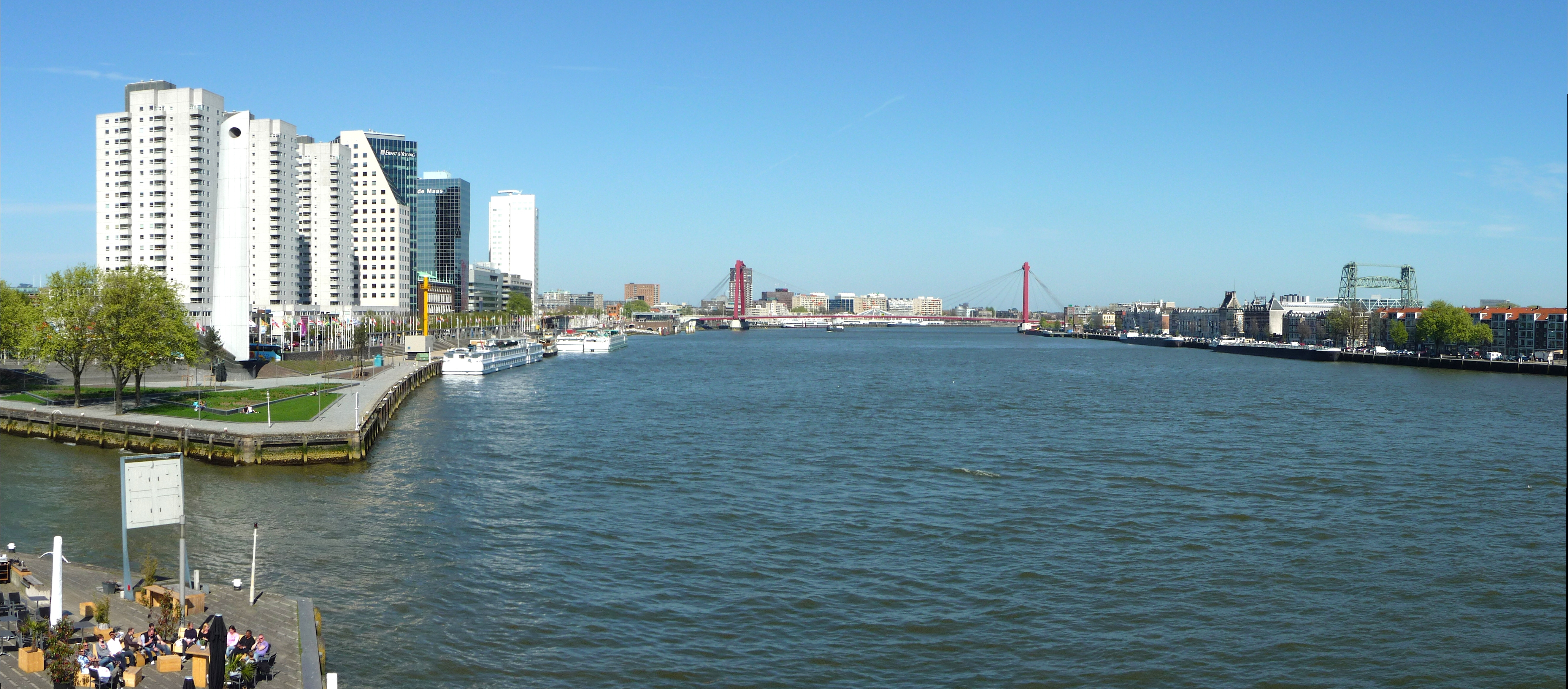 The New Meuse River in Rotterdam (South Holland, the Netherlands).